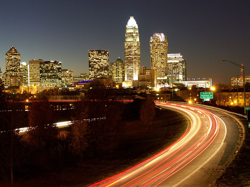 Picture of Charlotte, NC